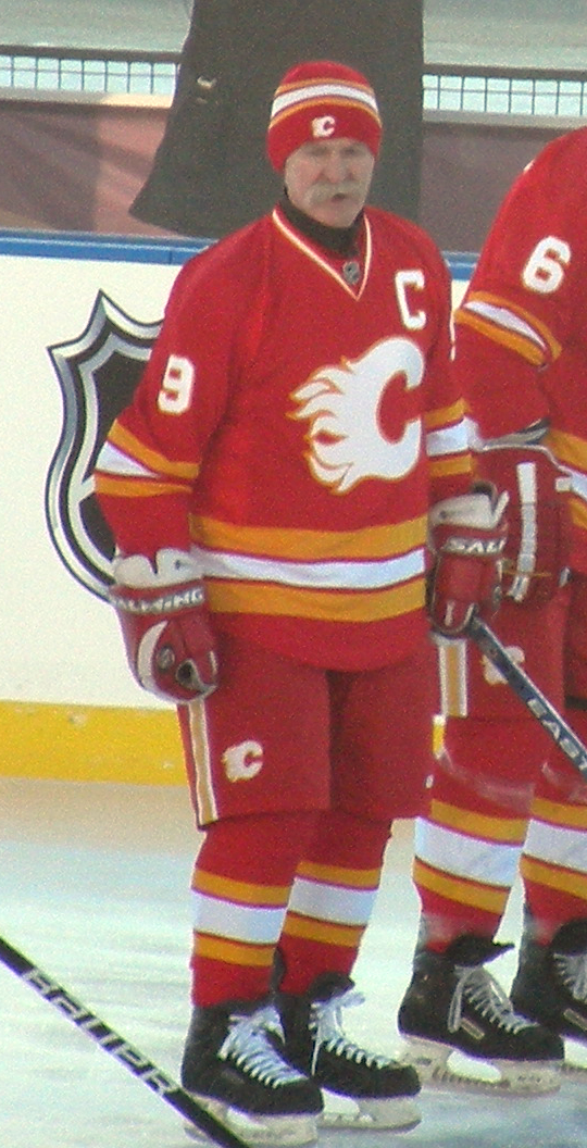 Lanny McDonald during an alumni game as part of the 2011 Heritage Classic in Calgary.